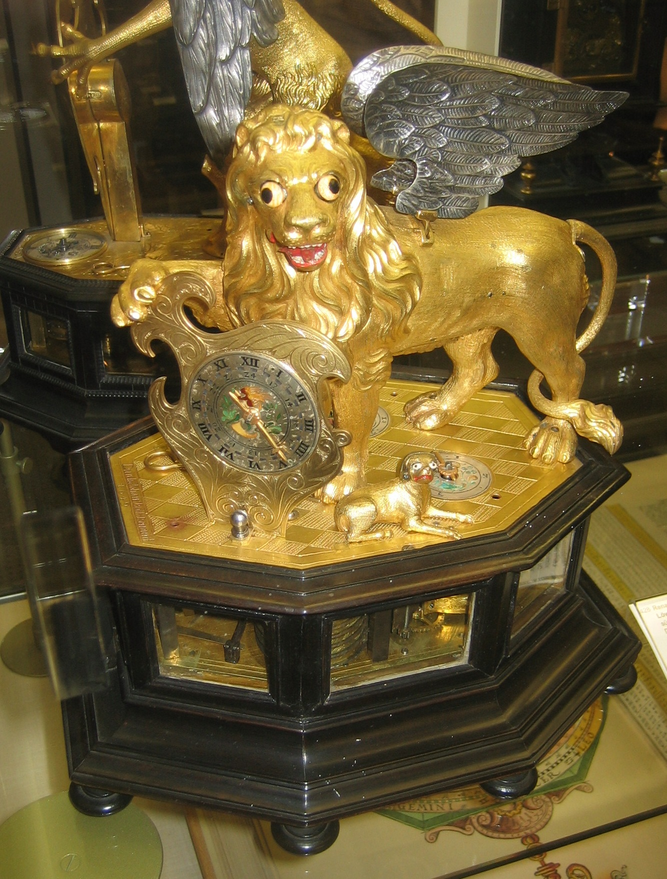 Photo by Fortunat Mueller-Maerki, April 2008, Visit of Antiquarian Horological Society USA Section at Uhrenmuseum Beyer. Here articulated Lion Automaton, probably made in Augsburg, ca. 1640, Renaissance